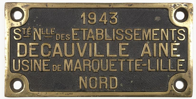 Locomotive Builders Plate - Decauville, Marquette-lez-Lille, France, 1943 (Gerald and Lorna Dee Collection, Photographer Jennifer McNair, © Museums Victoria, CC-BY. Brass rectangular locomotive builders plate, manufactured by Decauville Ainé, Marquette-lez-Lille, France, 1943. Manufacturer's identification plate fitted to a French National Railways (SNCF) locomotive. Gerald & Lorna Dee Collection Donation from Mr Gerald A. Dee, Mrs M. Lorna Dee, 24 November 1980 Decauville Aine, Marquette-lez-Lille, France, 1943 French National Railways (SNCF), France 1943. Ste. Nlle. des Etablissements Decauville Ainé. Usine de Marquette-Lille. Nord.)